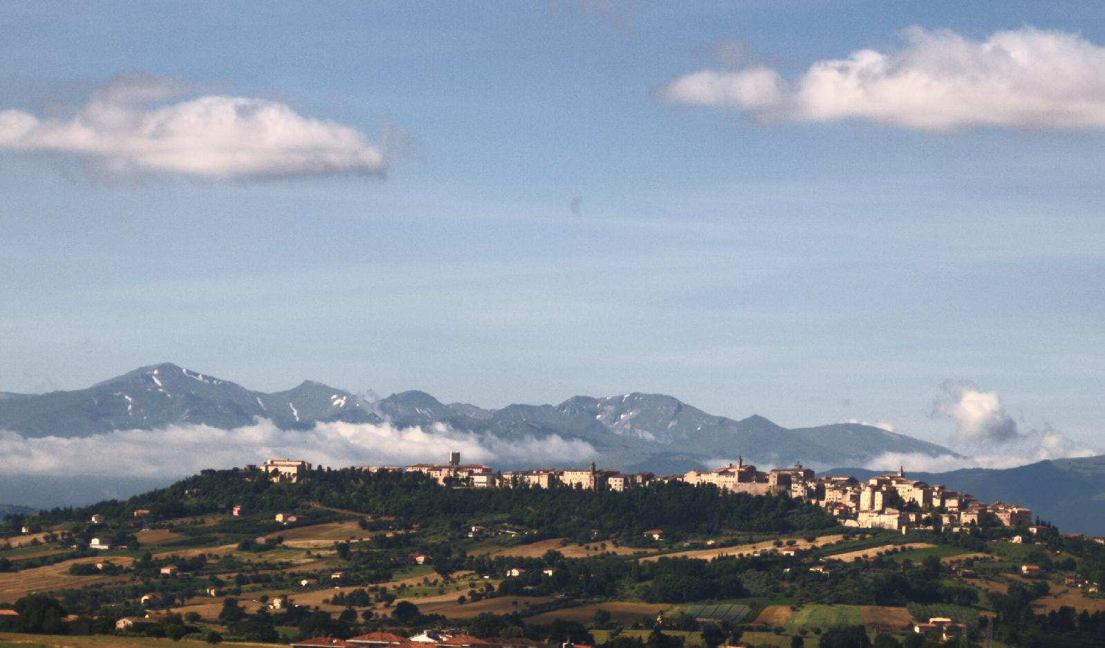 500px provided description: The hill town of Treia, Macerata Province, Marche Region, Italy. On a rare clear day. [#mountain ,#Italy ,#Macerata ,#Marche ,#Treia ,#Hill town ,#Appenine mountains]